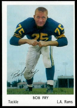 A 1959 promotional image of Los Angeles Rams player Bob Fry.